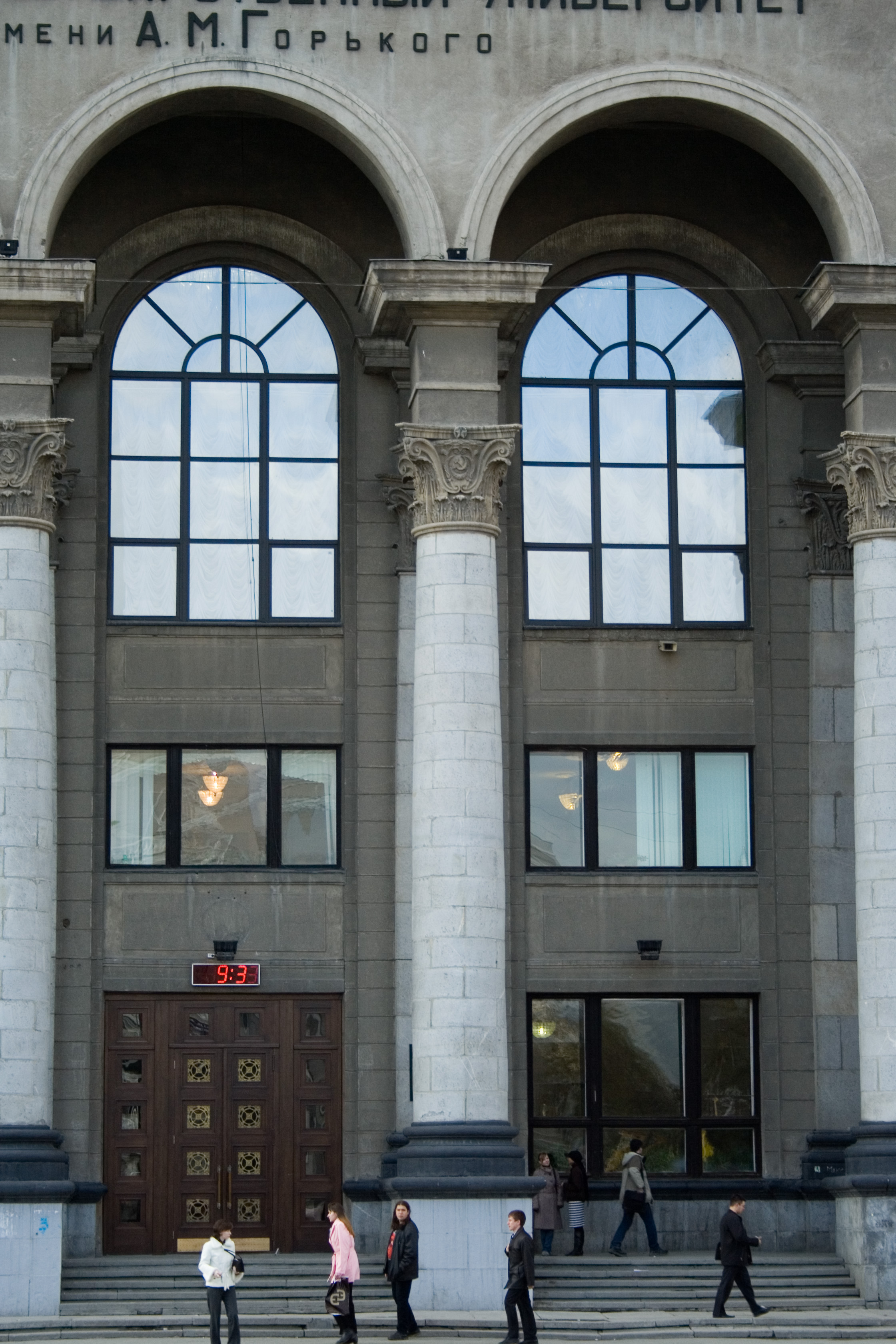 Ural State University entrance